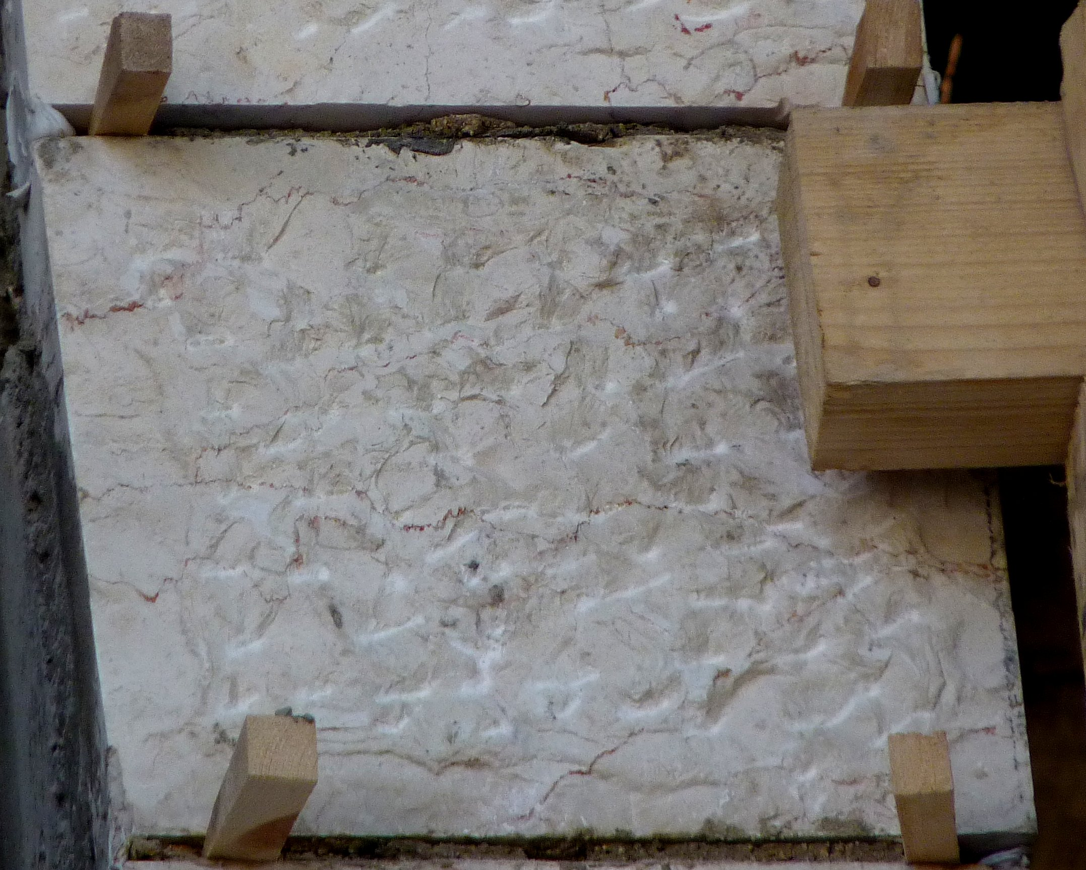 "And Hiram king of Tyre sent messengers to David, and cedar trees, and carpenters, and MASONS: and they built David an house". (2 samuel 5:11) In the original text in Hebrew "Stone experts" appear instead of "MASONS" == Using stones for building in Jerusalem started in the times of king David 3000 years ago, and still today there's a municipal law forcing contractors to build in Jerusalem only using stones. Jerusalem